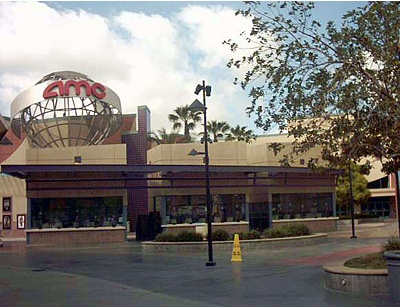 A 30-screen AMC Theatres movie theatre (actually a megaplex) at the Ontario Mills shopping mall in Ontario, California. Visible here are the large multi-booth box office and the AMC logo. The entrance to the enclosed lobby is just barely visible in the distance on the right side of the picture (mostly obscured by the box office). This picture was taken at 9 AM in the morning (AMC facilities usually close between 2 and 3 AM and open between 10 and 11 AM), which explains why the box office is still closed, and why a "Wet Floor" cone from the previous night's cleaning is in the middle of the picture. The contrast is poor because of unstable and cloudy weather conditions at the time.